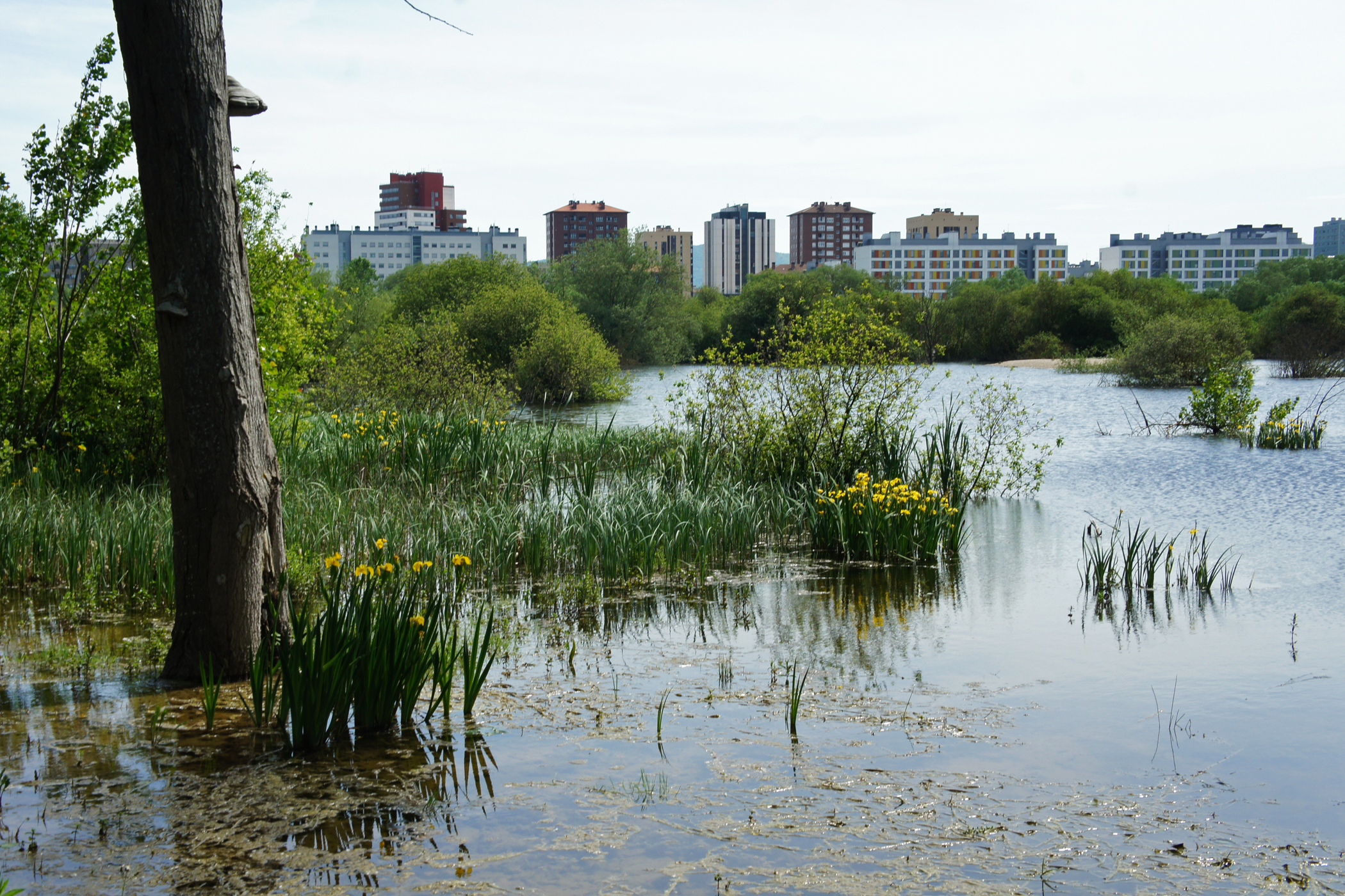 Vitoria-Gasteiz Anillo Verde (Green Belt), Basque Country, Spain.